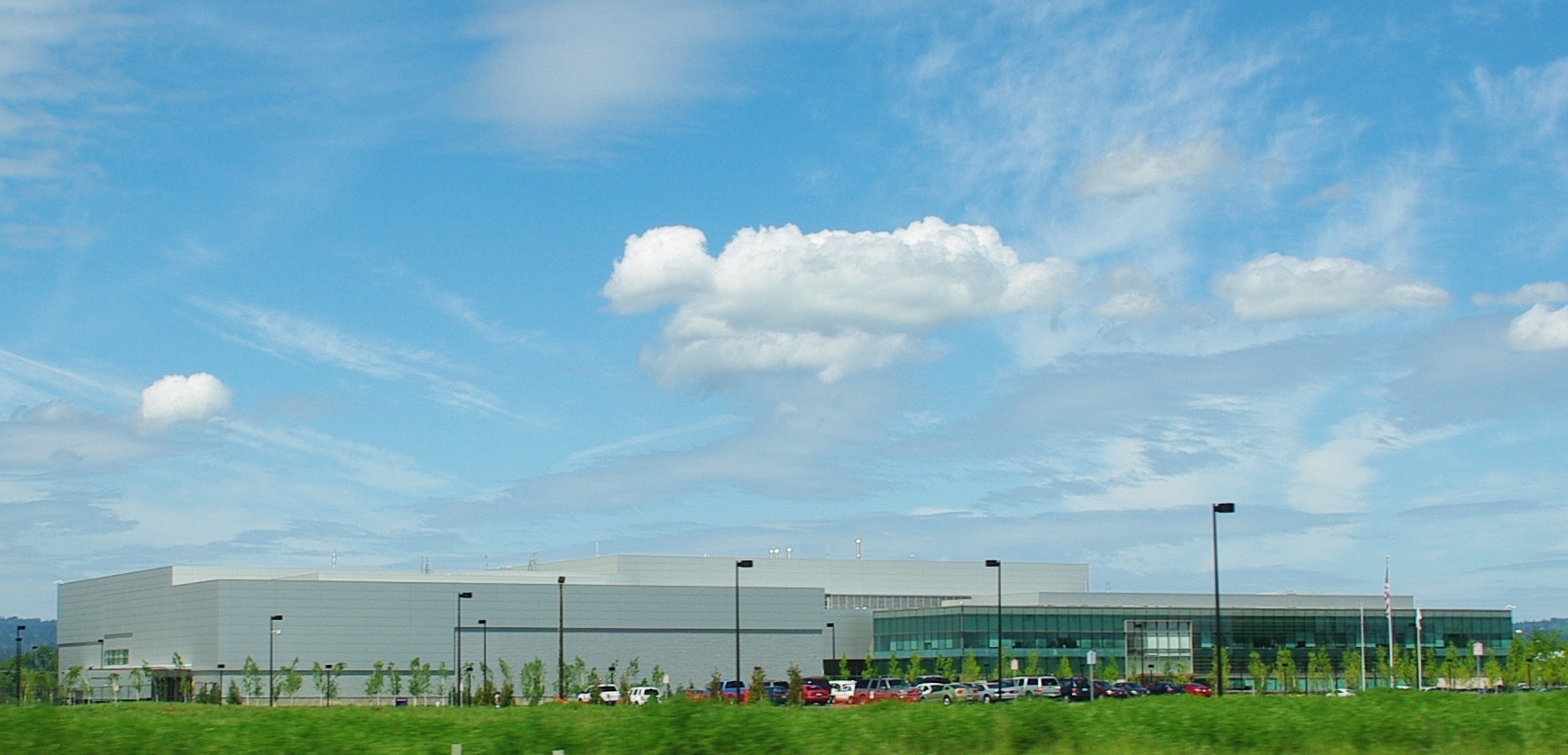 Genentech plant in Hillsboro, Oregon.